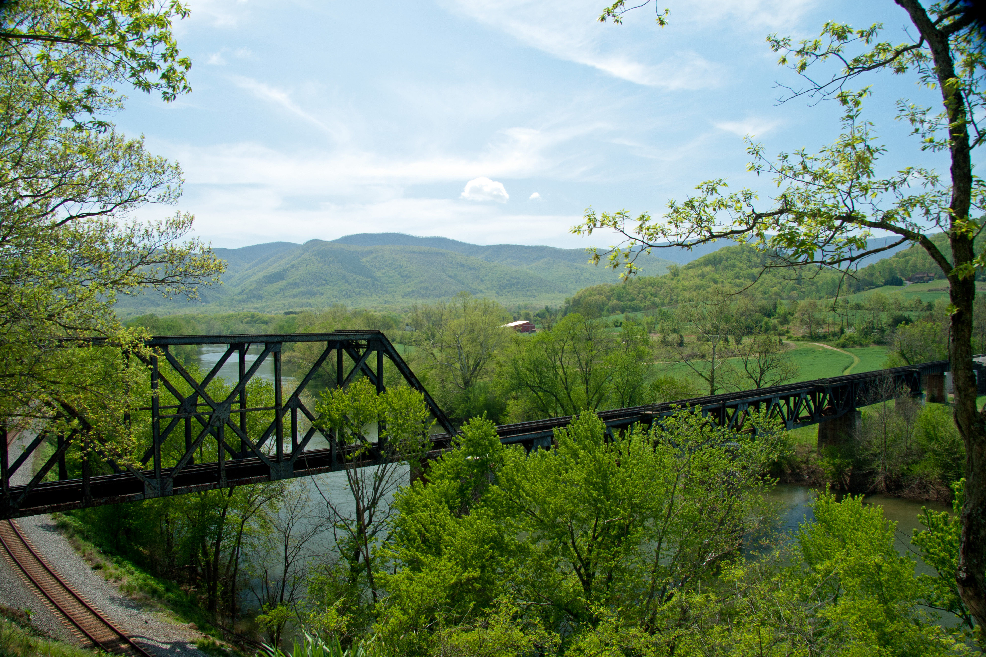 It was a peaceful and quiet Easter Sunday afternoon at Natural Bridge Station, VA. In fact, it was too quiet - no trains. The NS 'H' line crosses the CSX "James River Line" here.